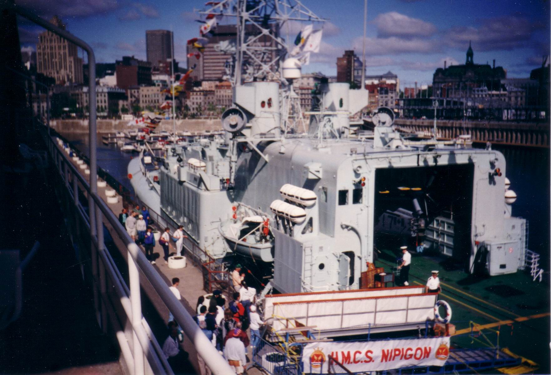 HMCS Nipigon (DDH 266) docked at the old port of Montreal, 17 May 1992 - details of the helicopter hangar.